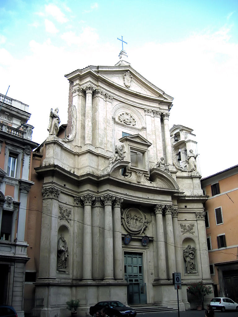 San Marcello al Corso, Rome. Picture by User:Torvindus.